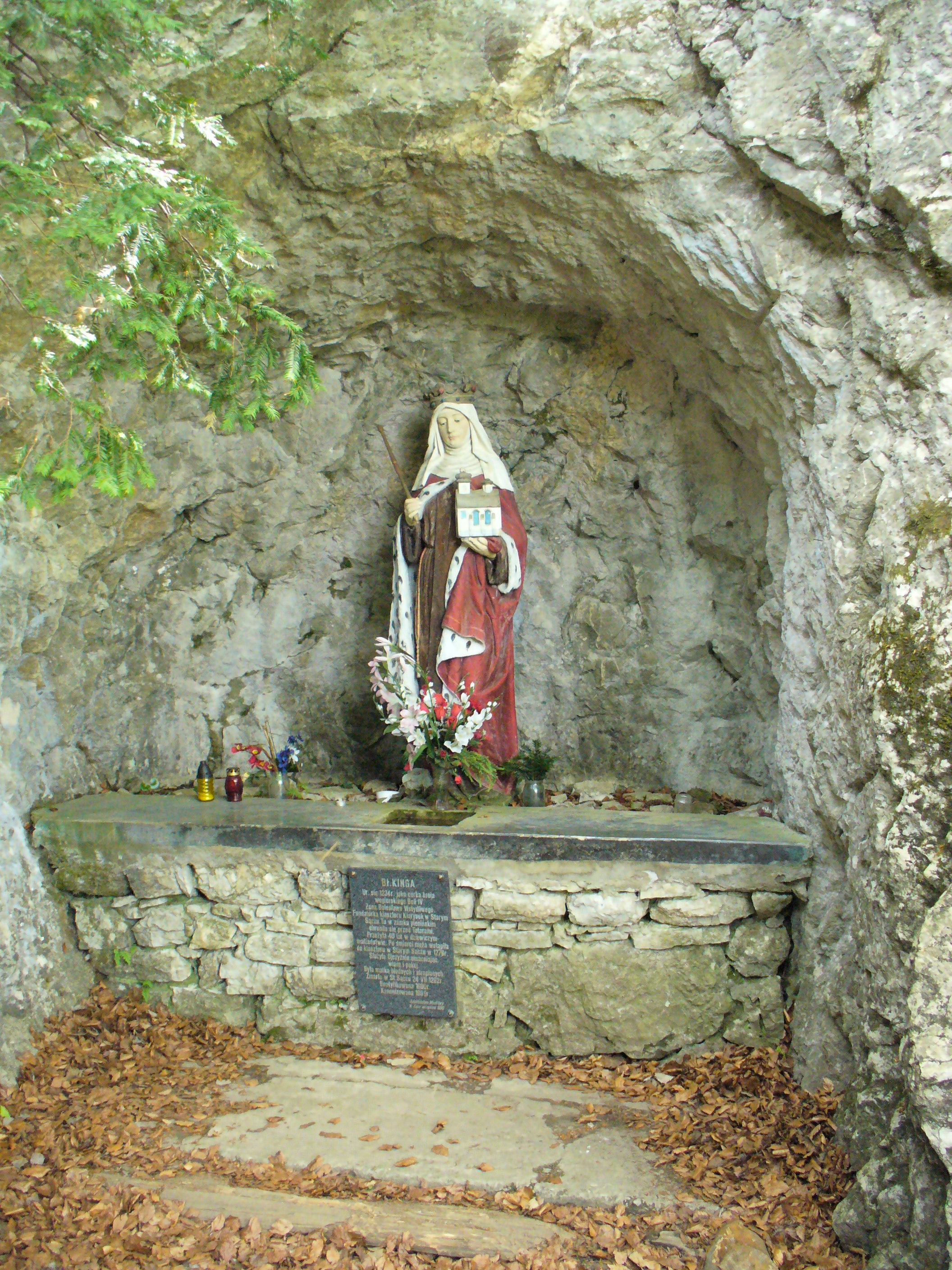 Statue of saint Kinga in Pieniny near Trzy Korony.